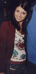 Picture of Cheryl Lynn Bogart